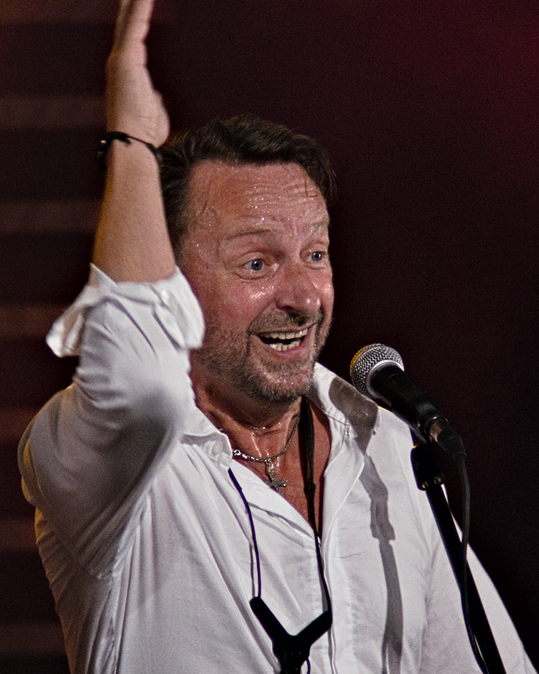 Mateusz Pospieszalski, Voo Voo concert in Katowice, Sejmu Śląskiego square, photo taken with permission of Voo Voo manager, Mariusz Dettlaff